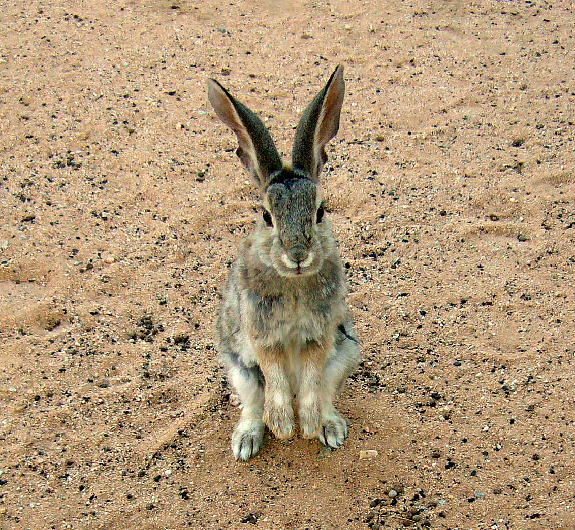 Desert Cottontail in Submission Mode.